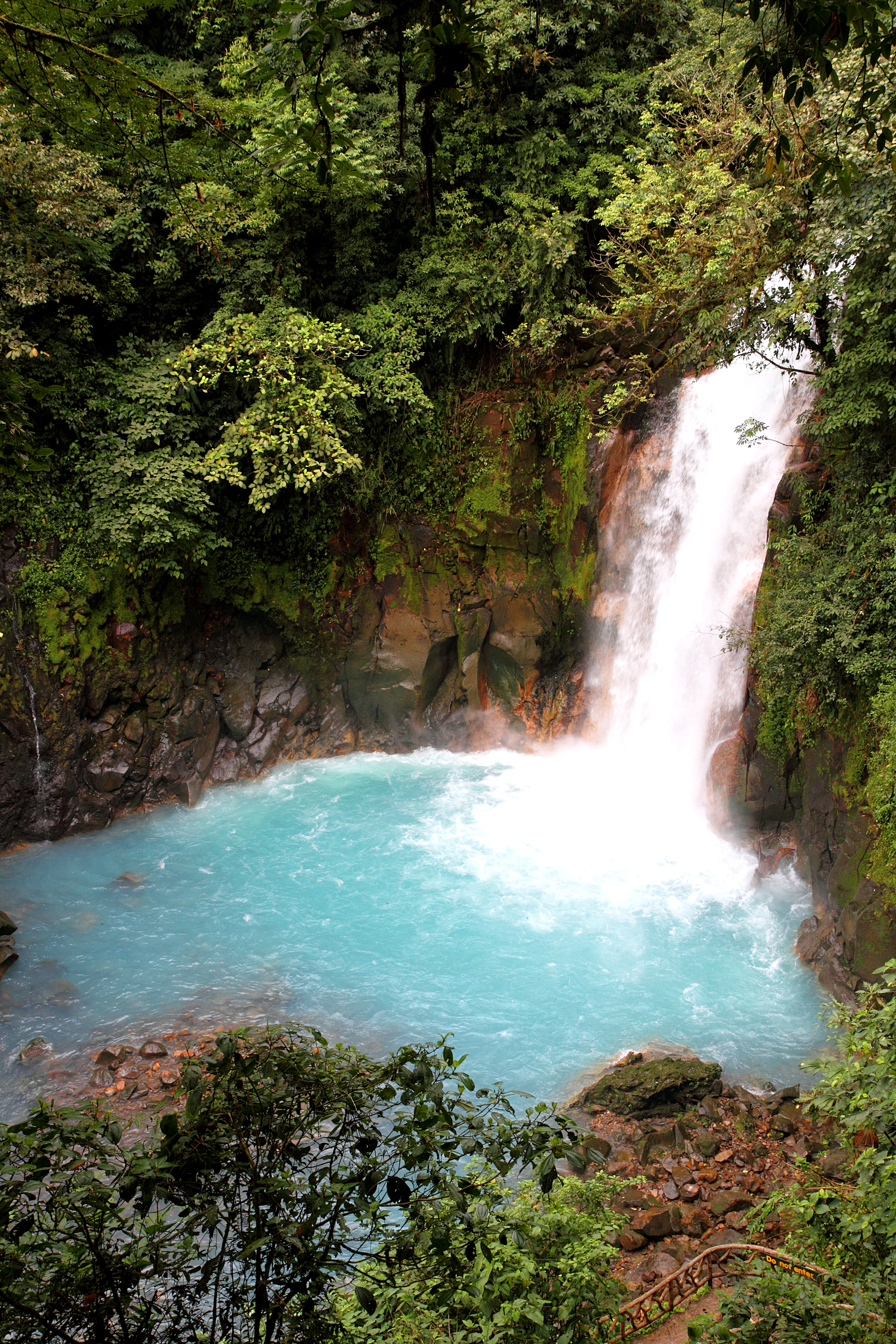 Celeste River fall, Tenorio National Park, Costa Rica.